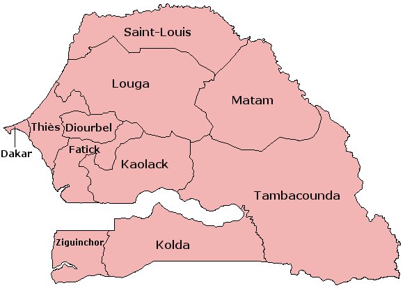 Map of regions, Senegal.